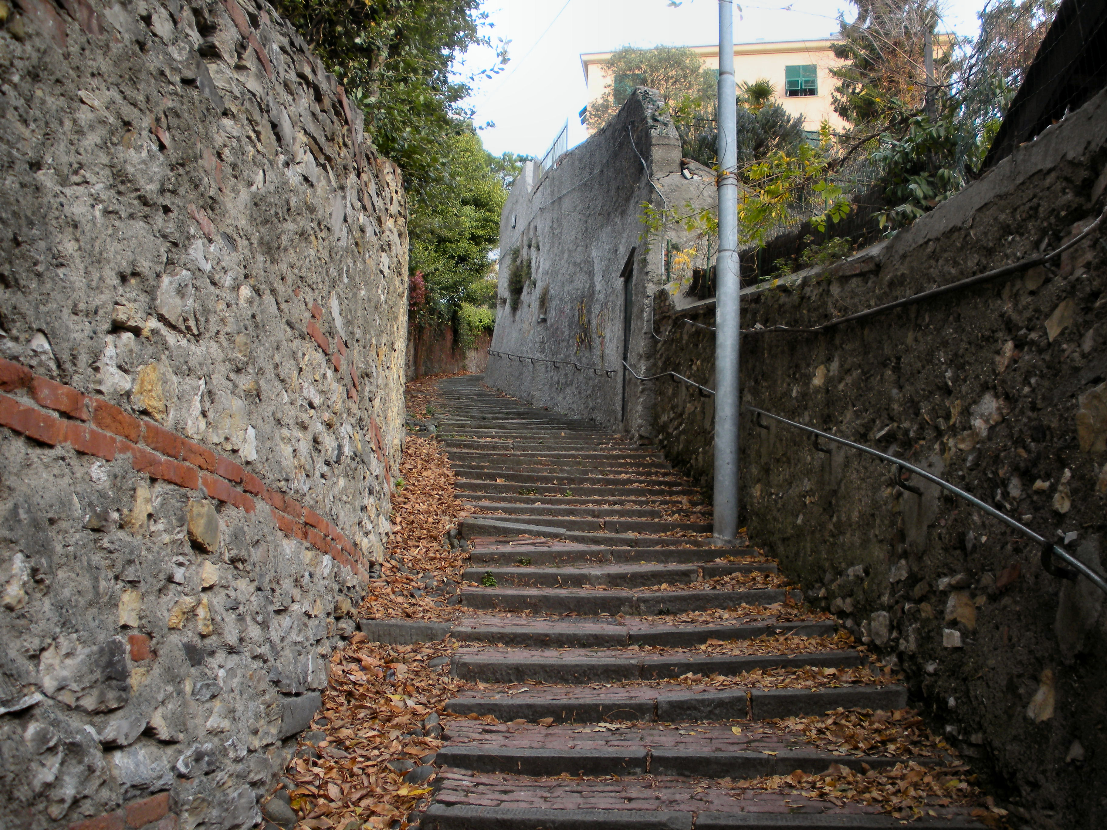 Genoa (Italy), quarter of Castelletto, S. Rocchino street